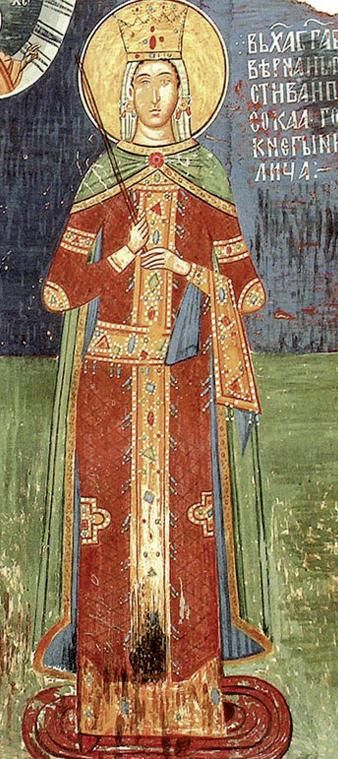 Fresco Milica in Ljubostinja monastery, near Trstenik, Serbia.